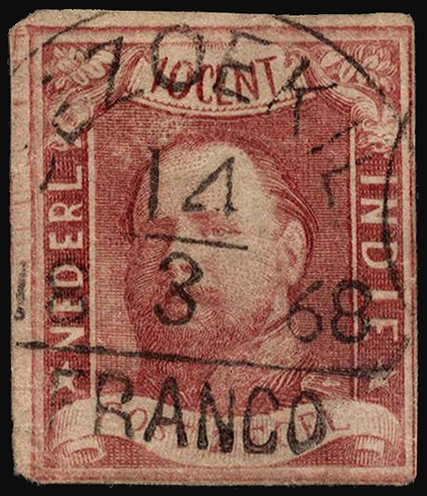 Postage stamp of Netherlands East Indies (Indonesia), king Willem III, 1864, 10 cents, scott#1. Scarce '(B)EZOEKIE' cancel, mentioned in NVPH.